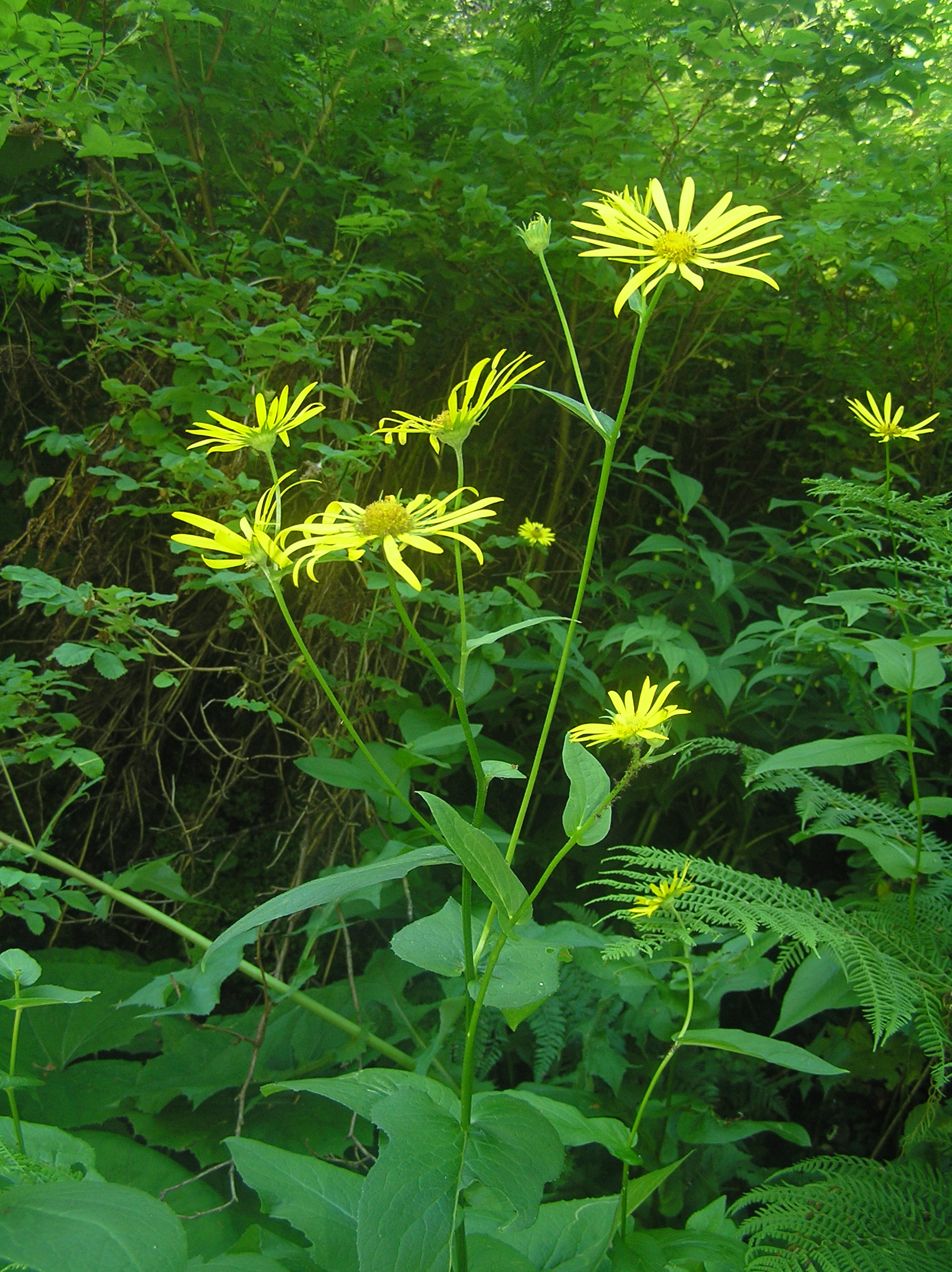 Doronicum austriacum, Králický Sněžník Mountains, Czech Republic